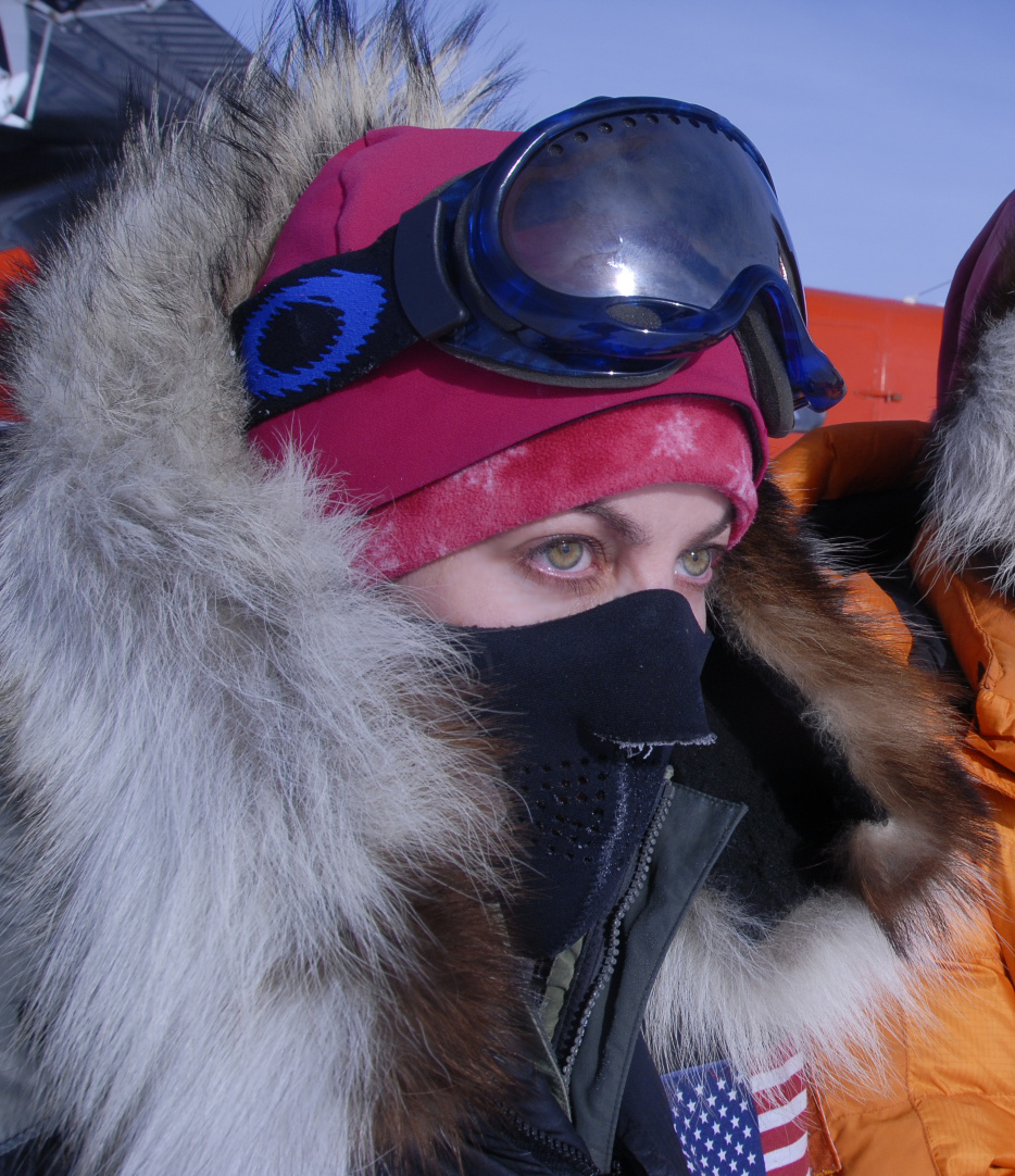 Alison Levine in Antarctica